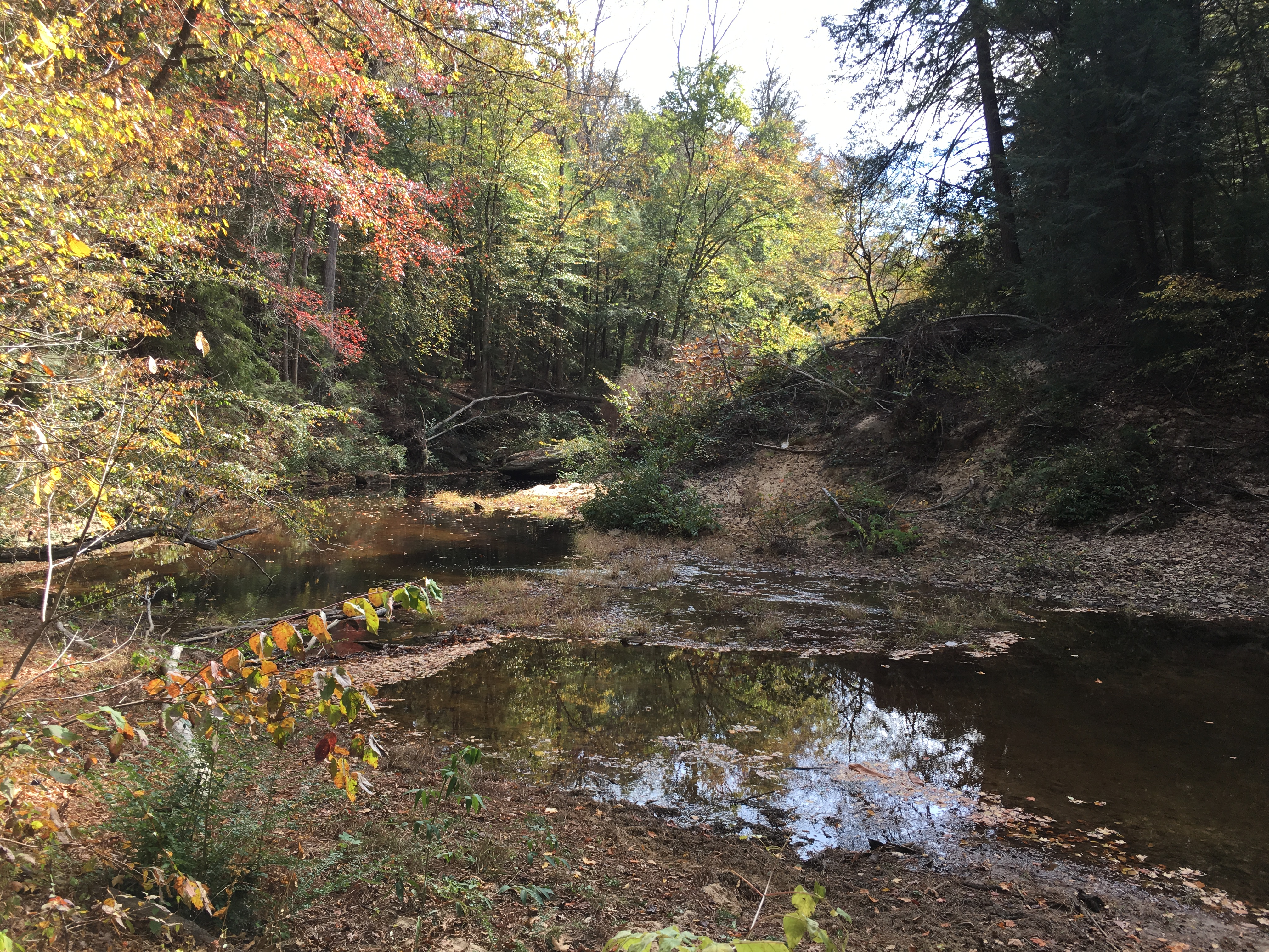 Sipsey River in the Sipsey Wilderness in William B. Bankhead National Forest, Alabama.